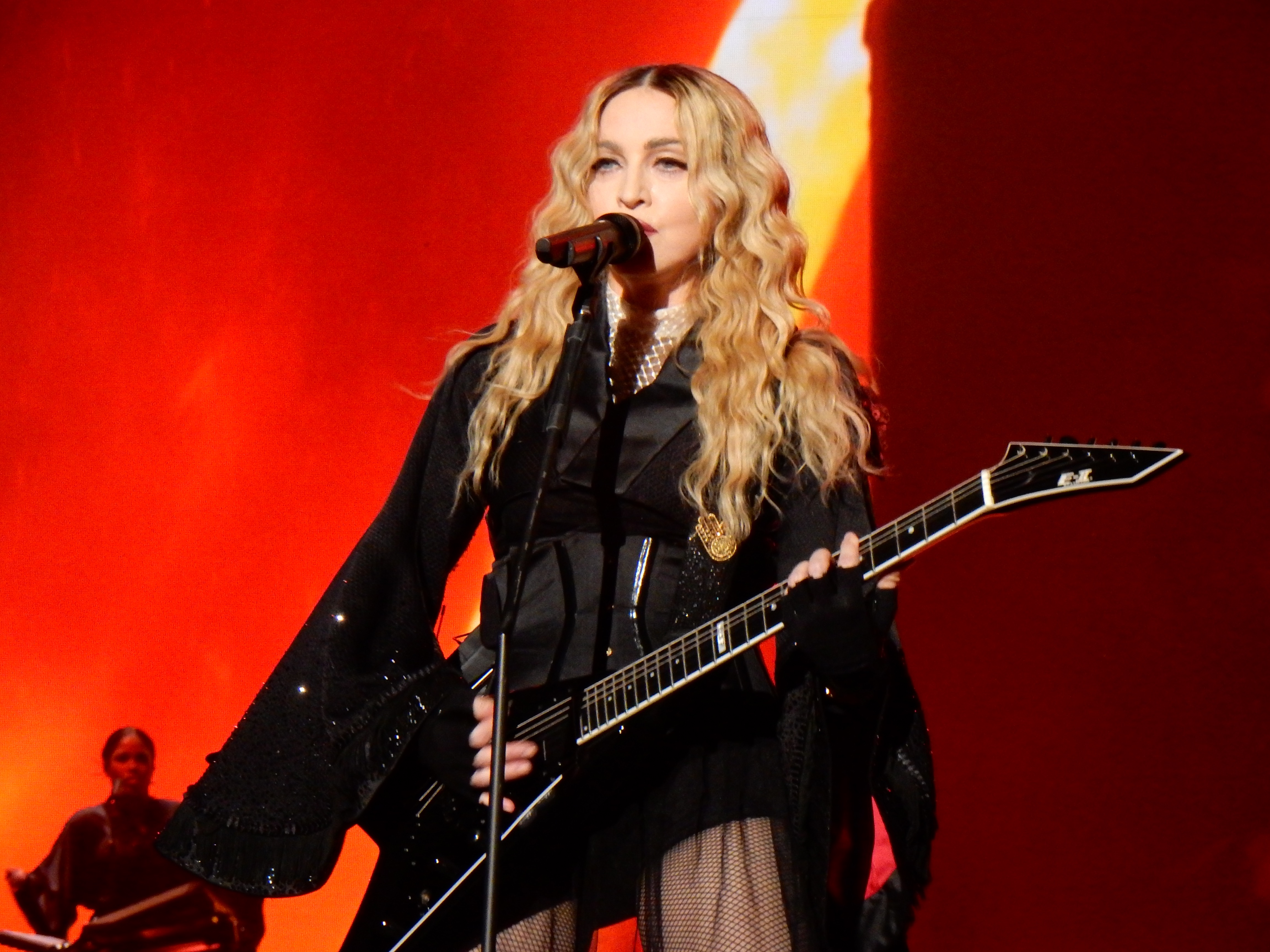 Madonna - Rebel Heart tour 2015 - Berlin 2